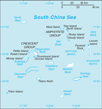 Map of the Paracel Islands from the CIA World Factbook